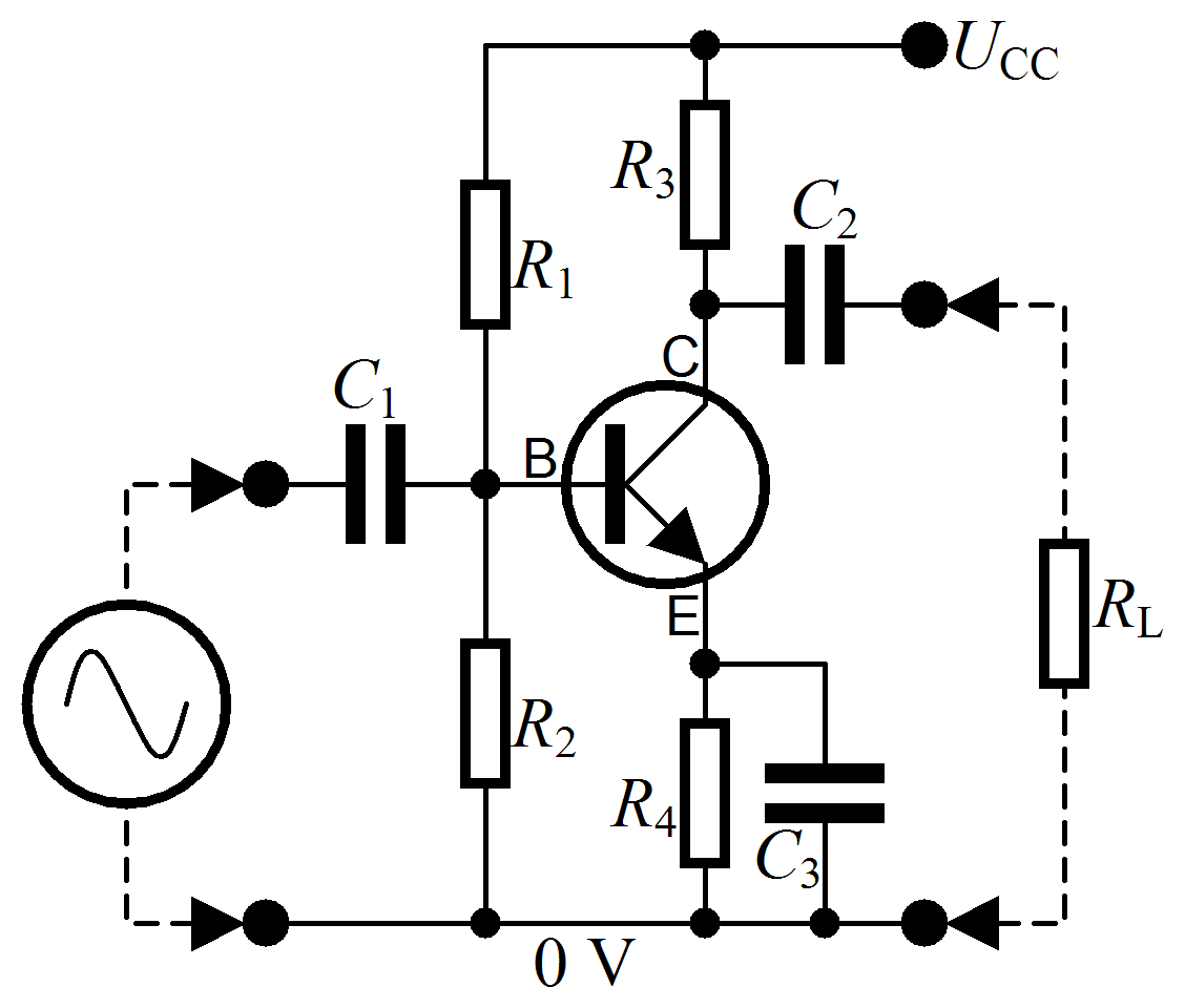 Shows the diagram for a commen emitter amplifying stage, utilizing a bipolar transistor